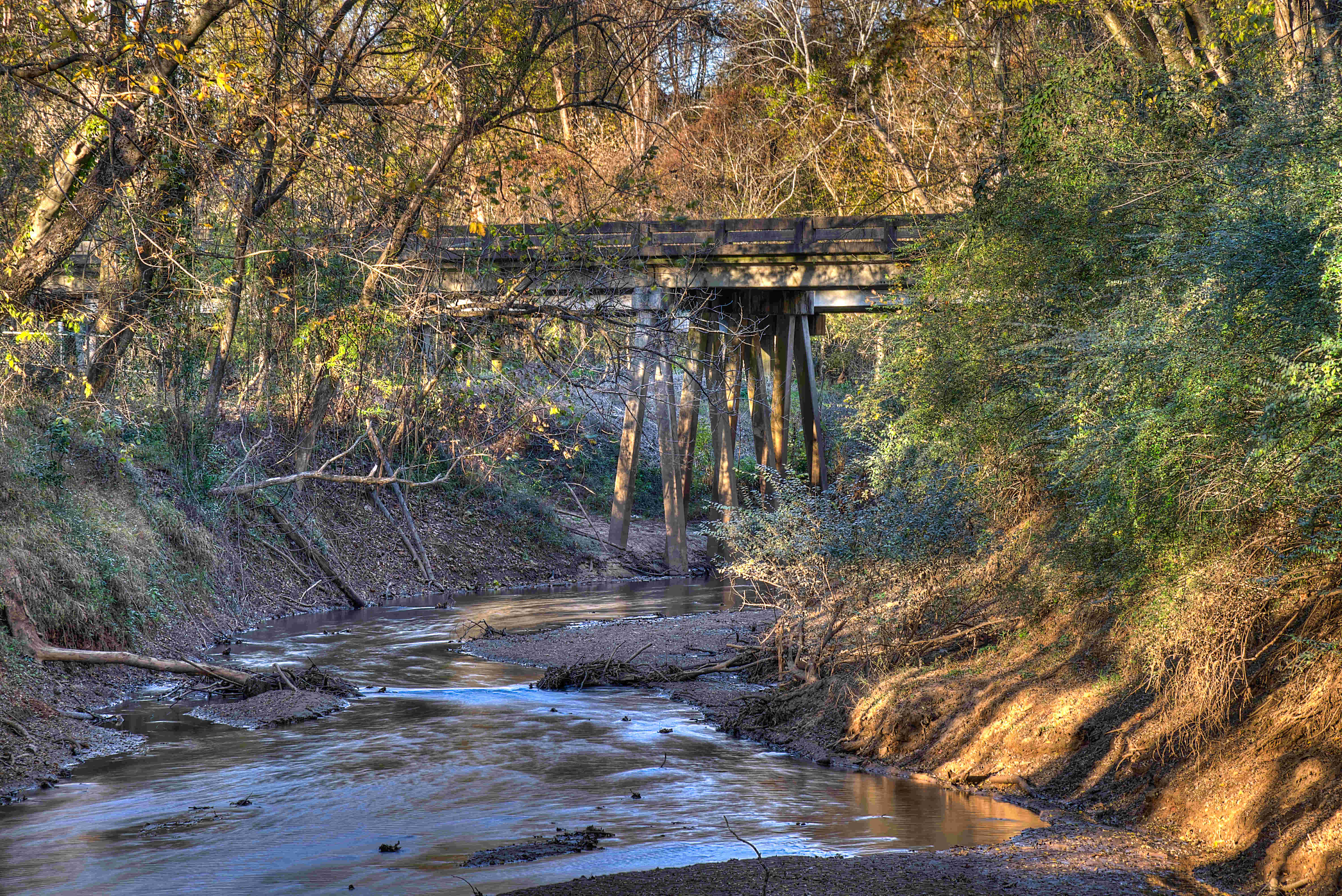 detail of Interstate 16